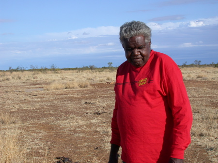 A Template:Warramunga native man